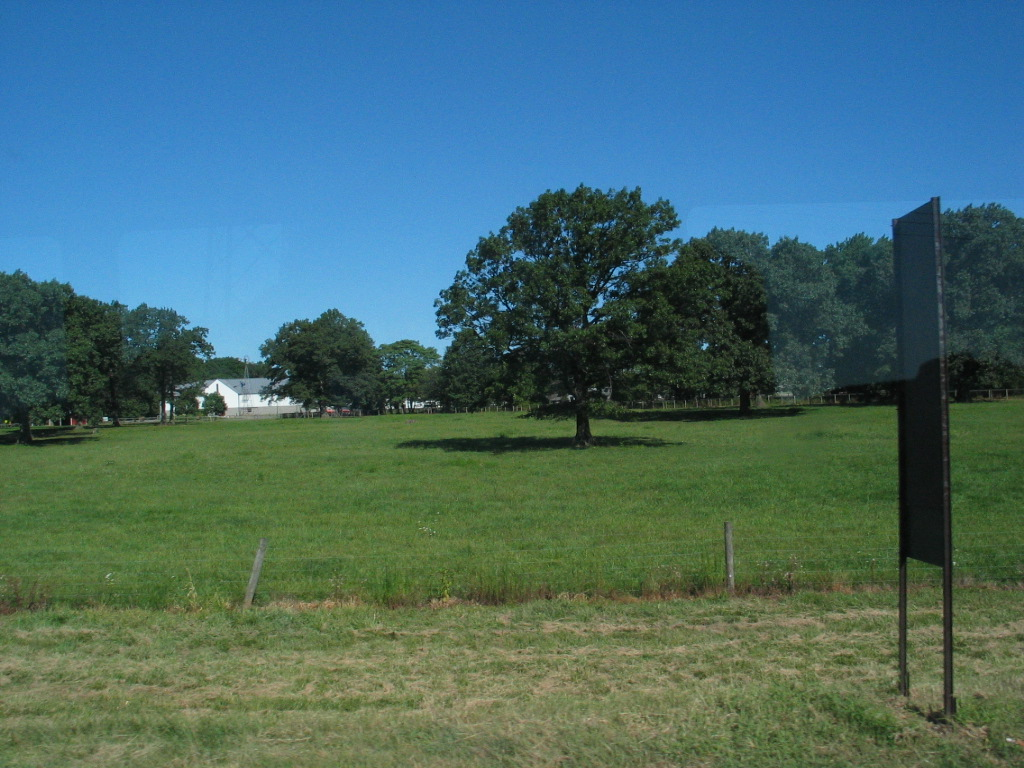 Cook college has some agricultural fields